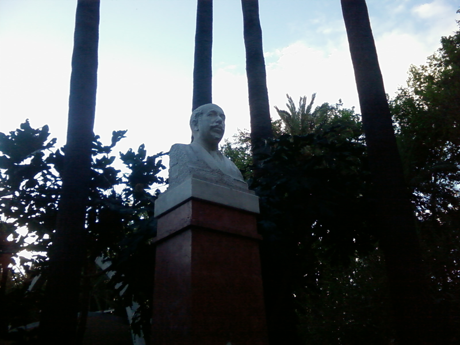 Antonio Muñoz Degrain monument in the Park of Málaga, Spain